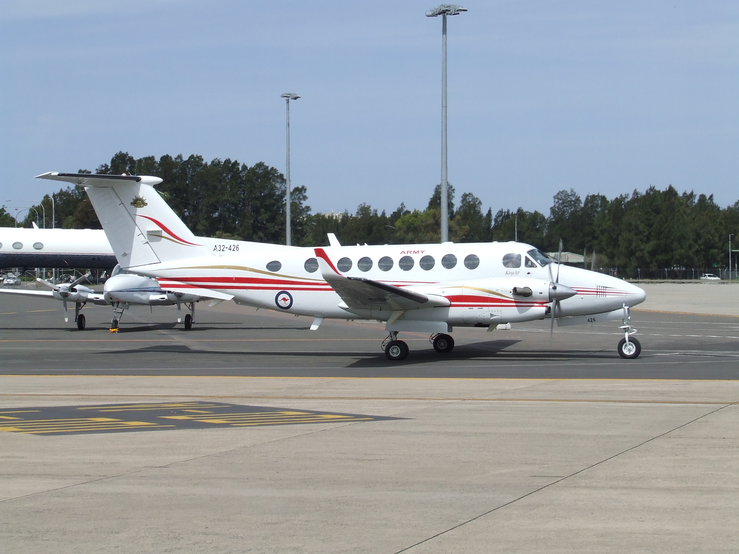 Australian Army Aviation Beechcraft B300 King Air 350 A32-426 in Kingsford Smith International Airport.